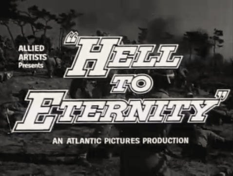 Hell to Eternity (1960) - trailer title (cropped screenshot)